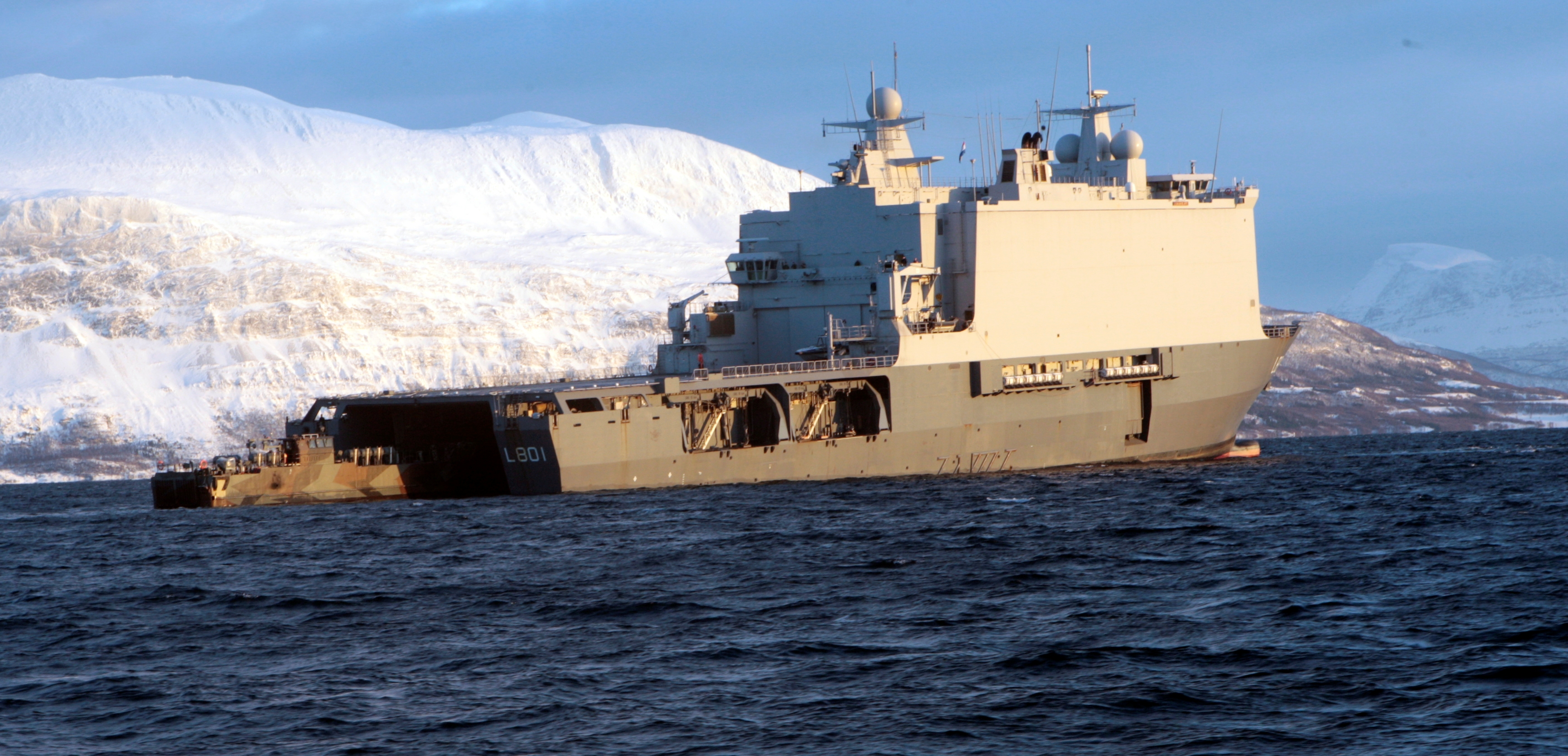 The landing platform dock HNLMS Johan De Witt (L801) is photographed before the arrival of U.S. Marines on February 16th, 2010.